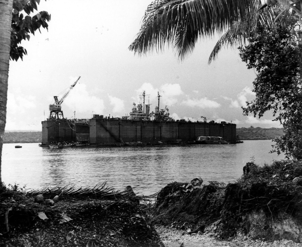 The U.S. Navy light cruiser USS Cleveland (CL-55) in floating drydock ABSD-1, at Aessi Island, off Espiritu Santo, New Hebrides, in January 1944.